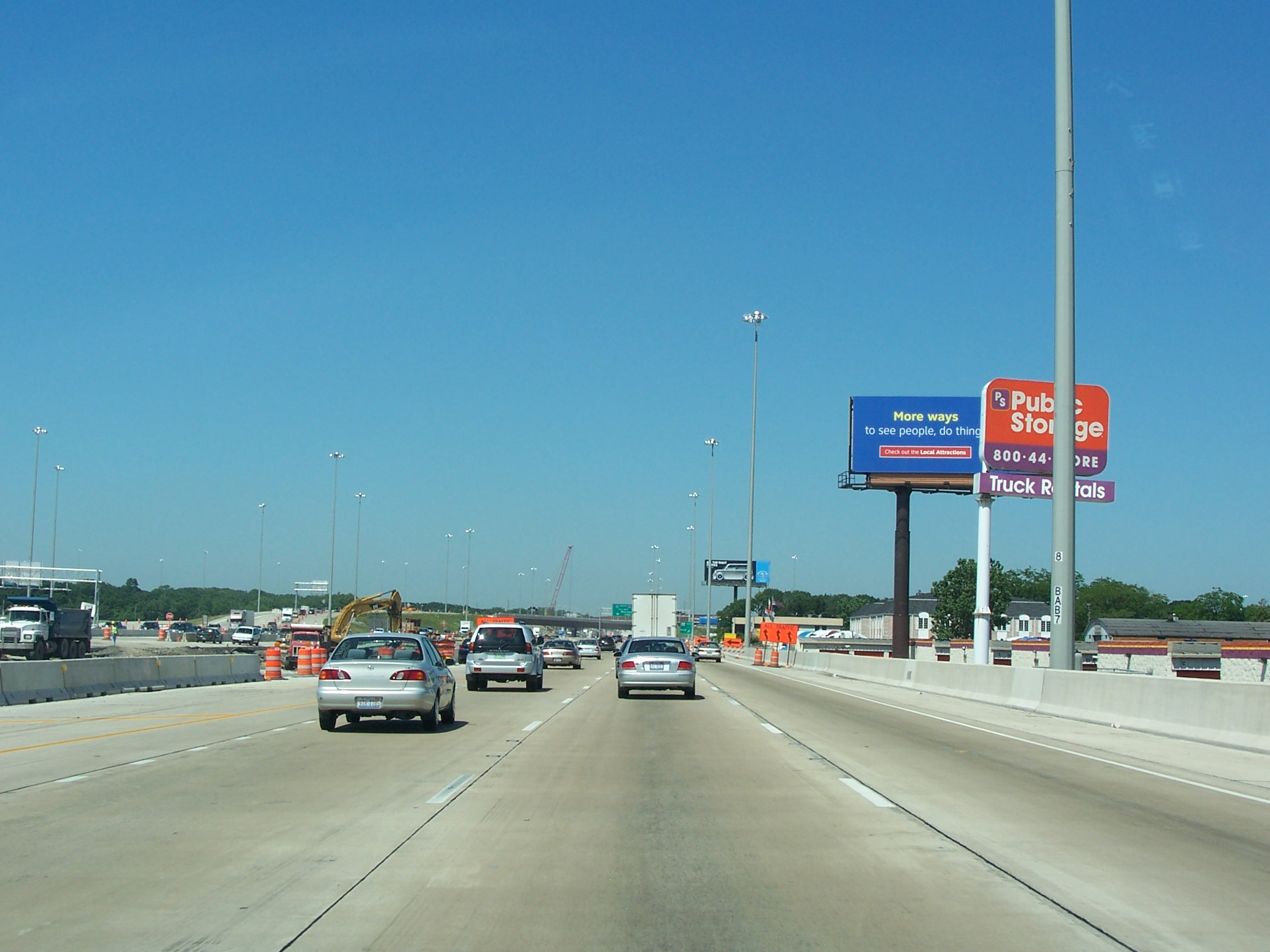 Kingery Expressway heading west.